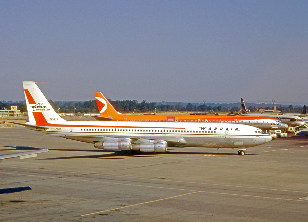 Boeing 707 CF-ZYP of Wardair Canada at London Gatwick in 1970